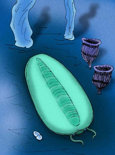 Comparison of the helmetiid arthropod Tegopelte gigas from the Middle Cambrian Burgess Shale, and the naraoiid arthropod Naraoia compacta.